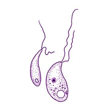 Colpodella vorax (Kent, 1880) Simpson and Patterson, 1996. Cells subpyriform, widest and rounded posteriorly, pointed anteriorly and slightly curved towards the ventral aspect, about two and a half times as long as broad, surface smooth, flagella slender, vibratile, subequal, exceeding the body in length, oral aperture eceedingly elastic, conspicuous only during the passage of food, endoplasm finely granulate, nucleus spherical, subapical, subcentral, contractile vacuole posteriorly located. Length of body 16 microns Predatory.